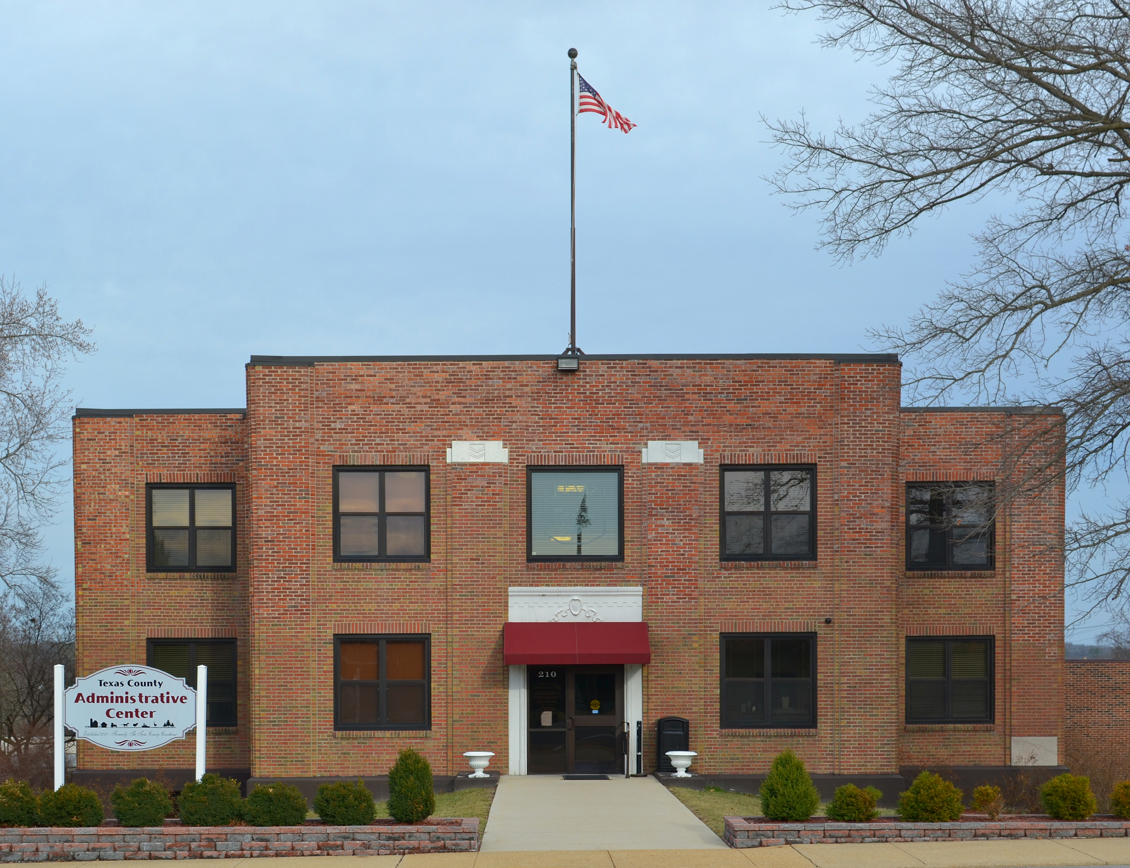 The former Texas County, Missouri, courthouse, now the county administrative building. Courts have moved two blocks north to the new Texas County Justice Center.